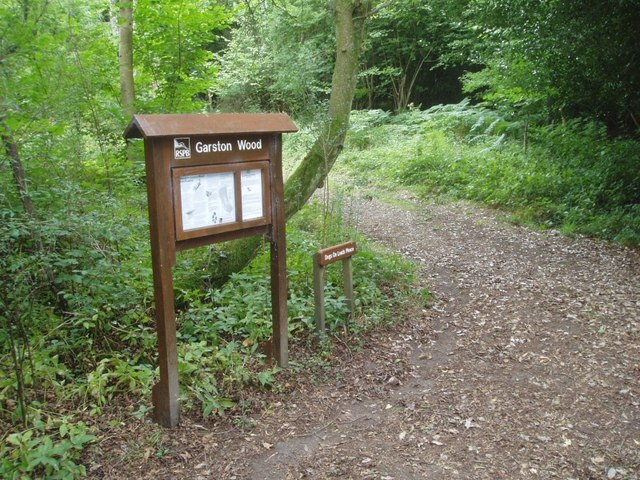 Garston Wood information. The nature reserve is managed by the RSPB. It covers 84 acres (34 hectares) and is coppiced in 10 and 12 year cycles.